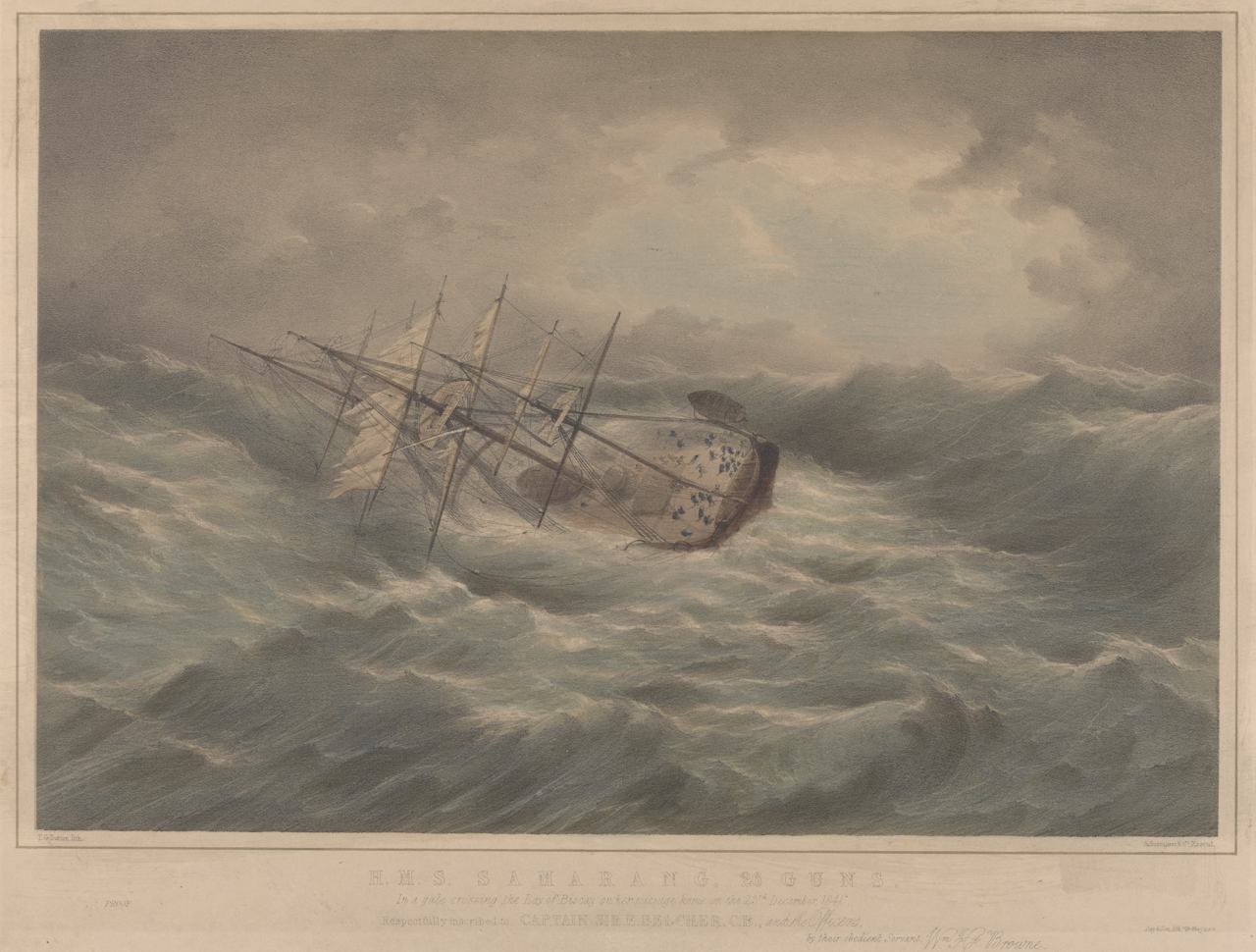 H.M.S. Samarang 26 Guns In a gale crossing the Bay of Biscay on her passage home on the 23rd December 1846 Hand-coloured. unavailable